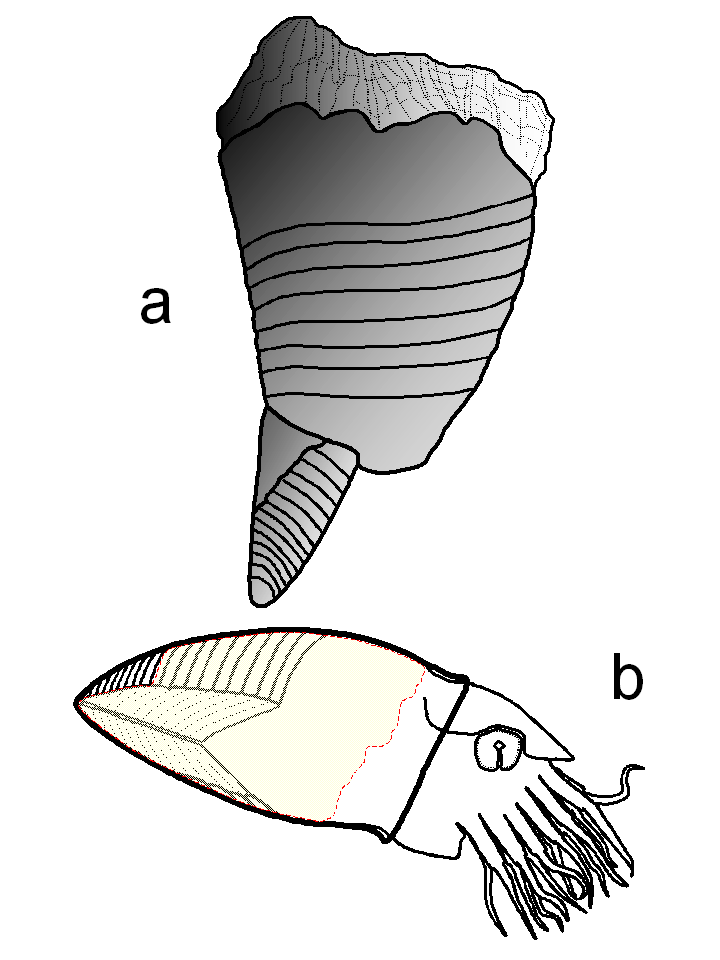 a)Illustration of a fossil Cassinoceras specimen, an extinct nautiloid of order Endocerida (from Evans D., 1992, modified); b) reconstruction in the probable life position; the internal structures (endocones ans phragmocone chambers) are shown and the preserved part of the above fossil is evidenced in yellow (circled by the red dashed line).